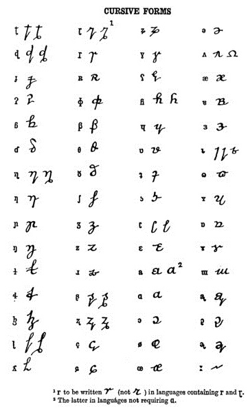 Cursive forms of IPA letters, per the 1949 IPA handbook